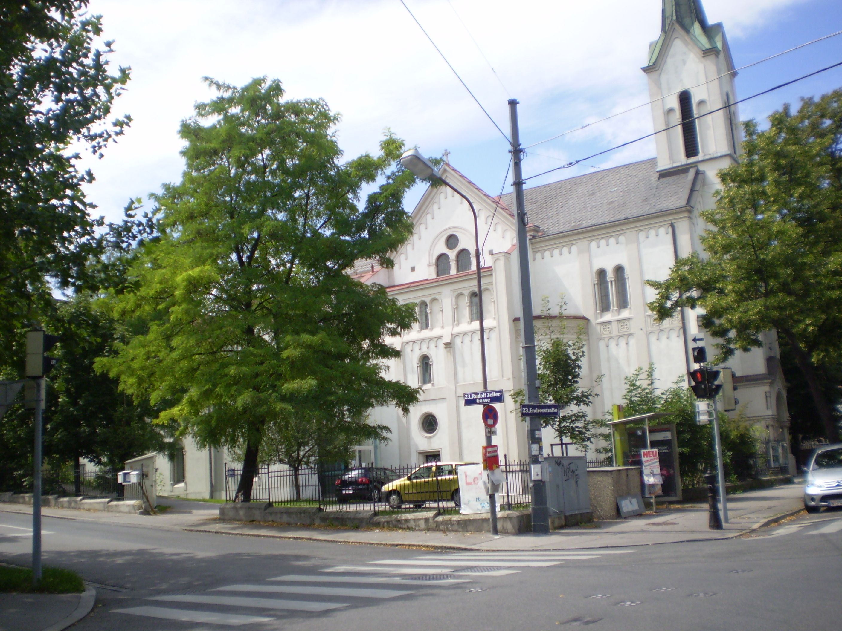 Redeemer Church in Mauer, Vienna. Junction Endresstraße / Rudolf-Zeller-Gasse.